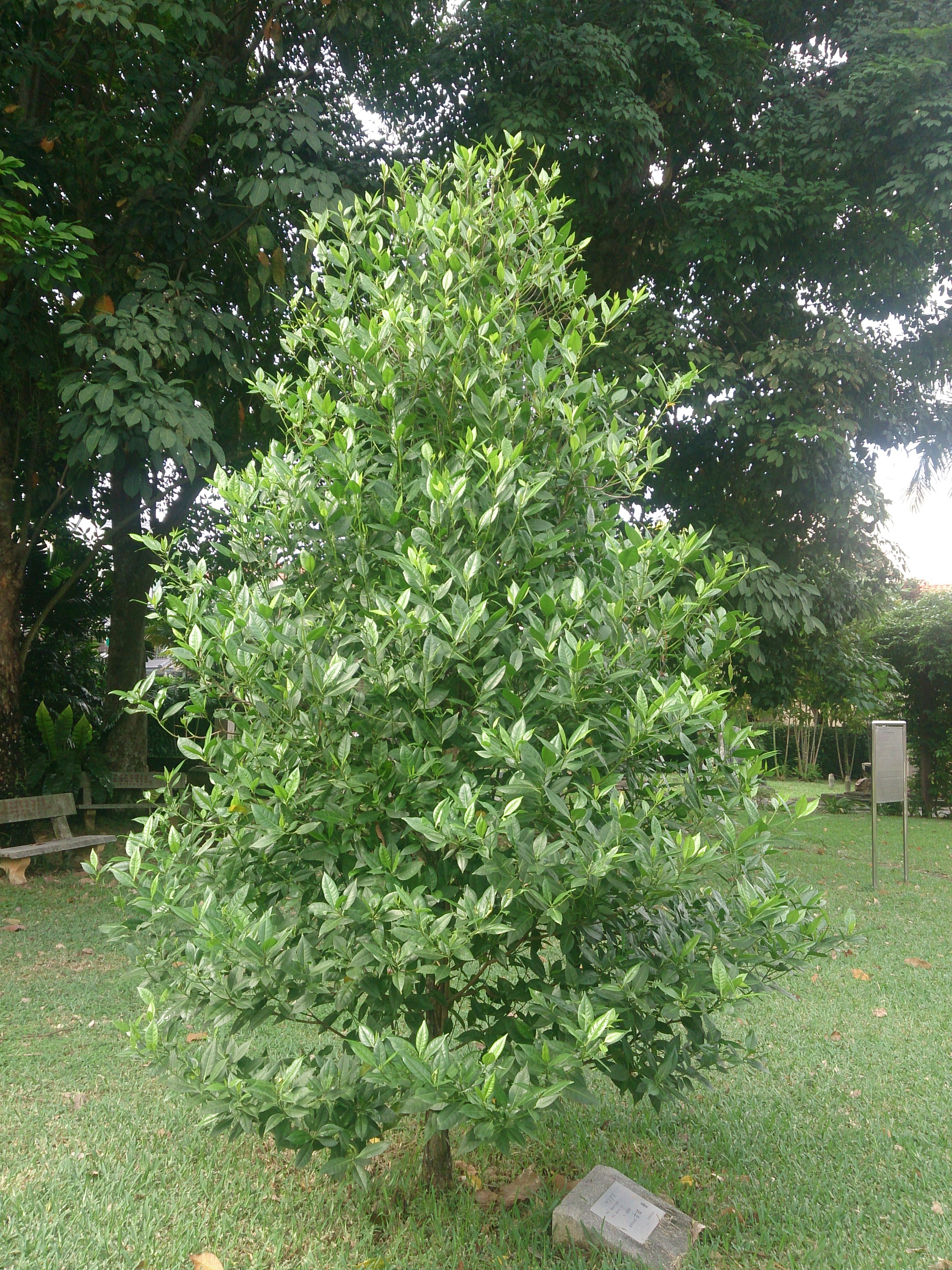 Young Tembusu tree planted at the Japanese Cemetery Park (Chuan Hoe Avenue, Singapore)